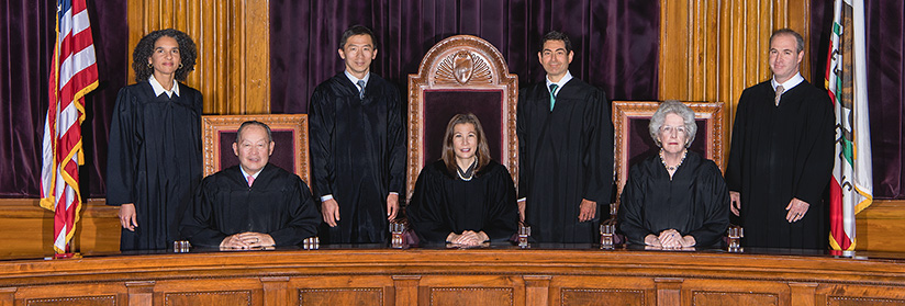 Justices of the California Supreme Court, 2019